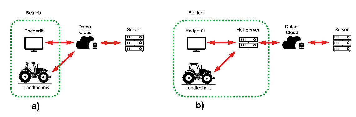 Central cloud system (a) with external data storage and decentralized structure (b) with farm server and fallback functionality in failure scenario